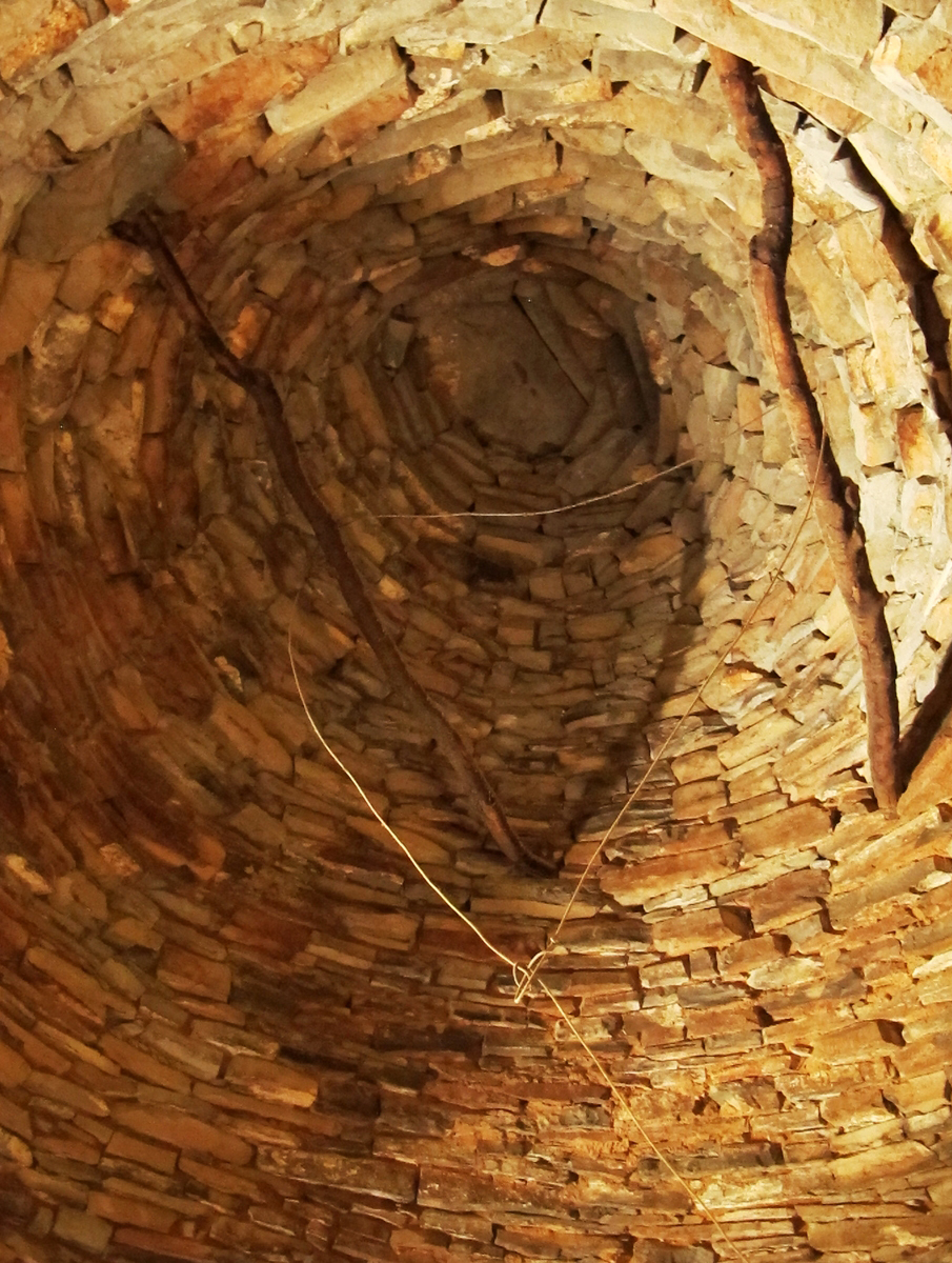 interior of roof to show construction method. This media shows a South African Protected Site with SAHRA file reference 9/2/107/0005.